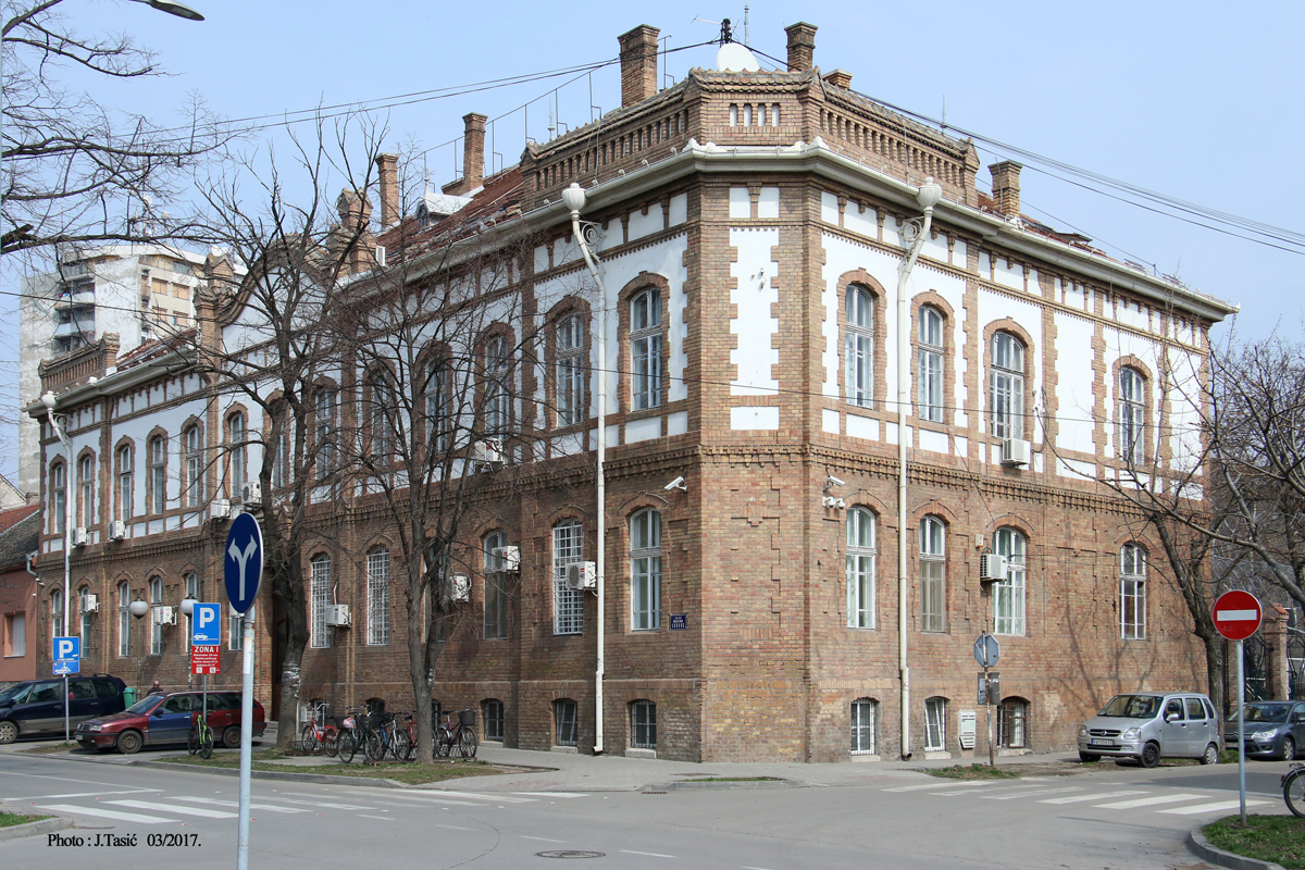 High School "Nikola Tesla" Pančevo